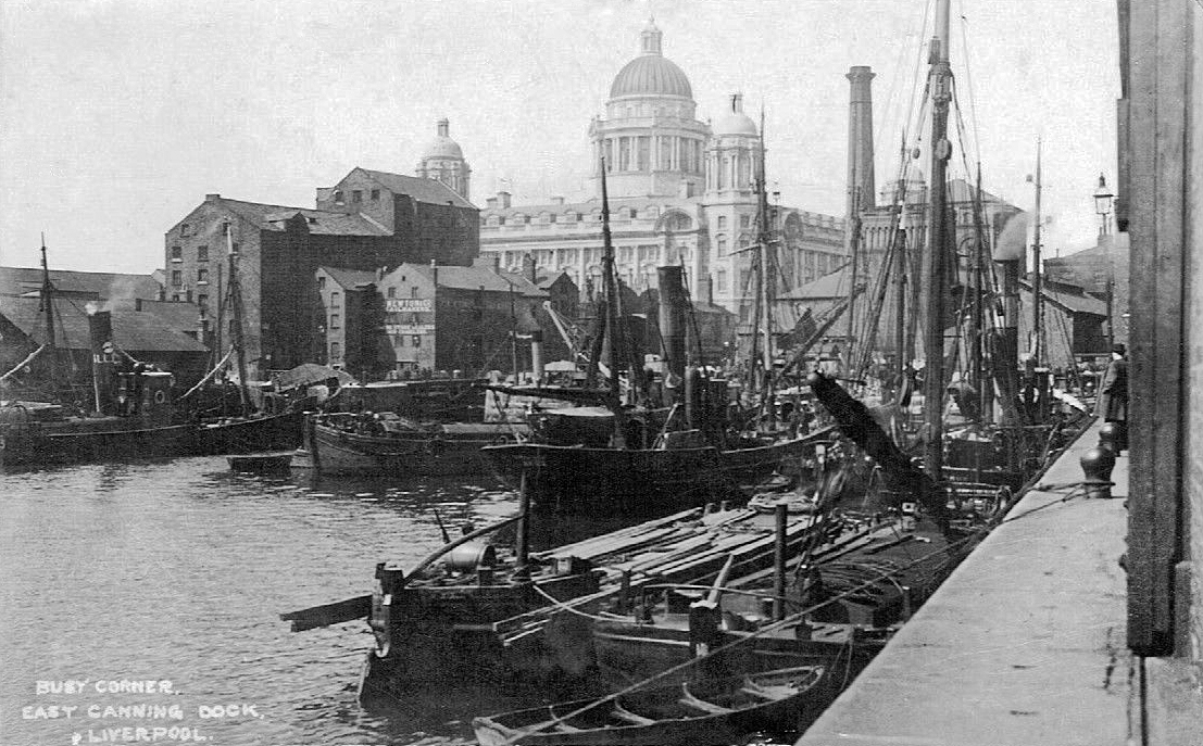 Barges at the east of Canning Dock in the Port of Liverpool, England, 1910 or before, showing a view of the Port of Liverpool Building before the Royal Liver Building was erected behind in 1911.